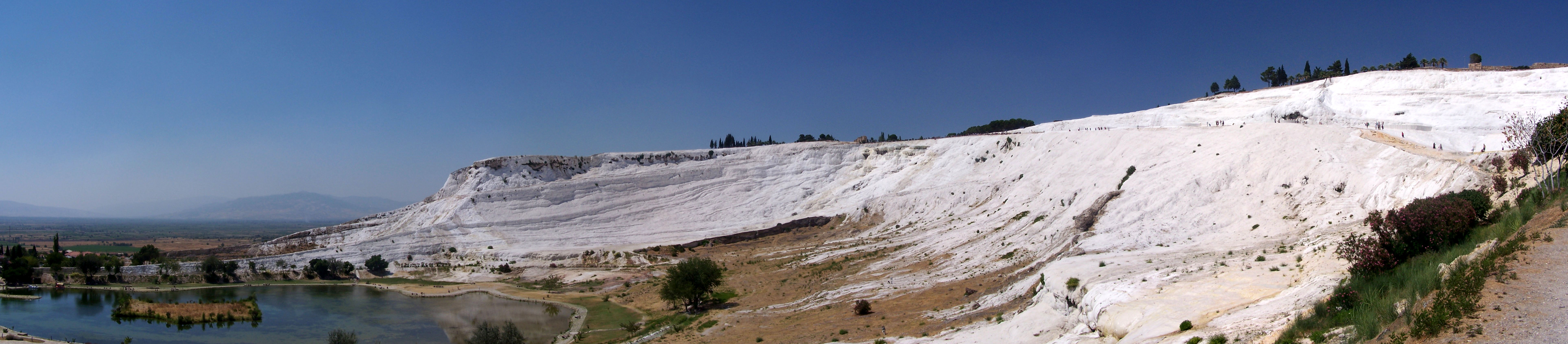 Limestone terraces of Pamukkale, Turkey